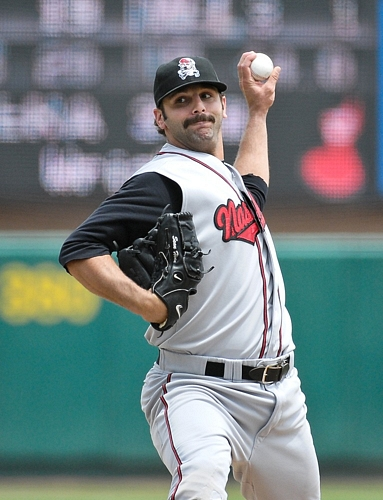 Chase Wright, a pitcher for the minor league Nashville Sounds, in mid-pitching motion during a game at Raley Field on May 26, 2010